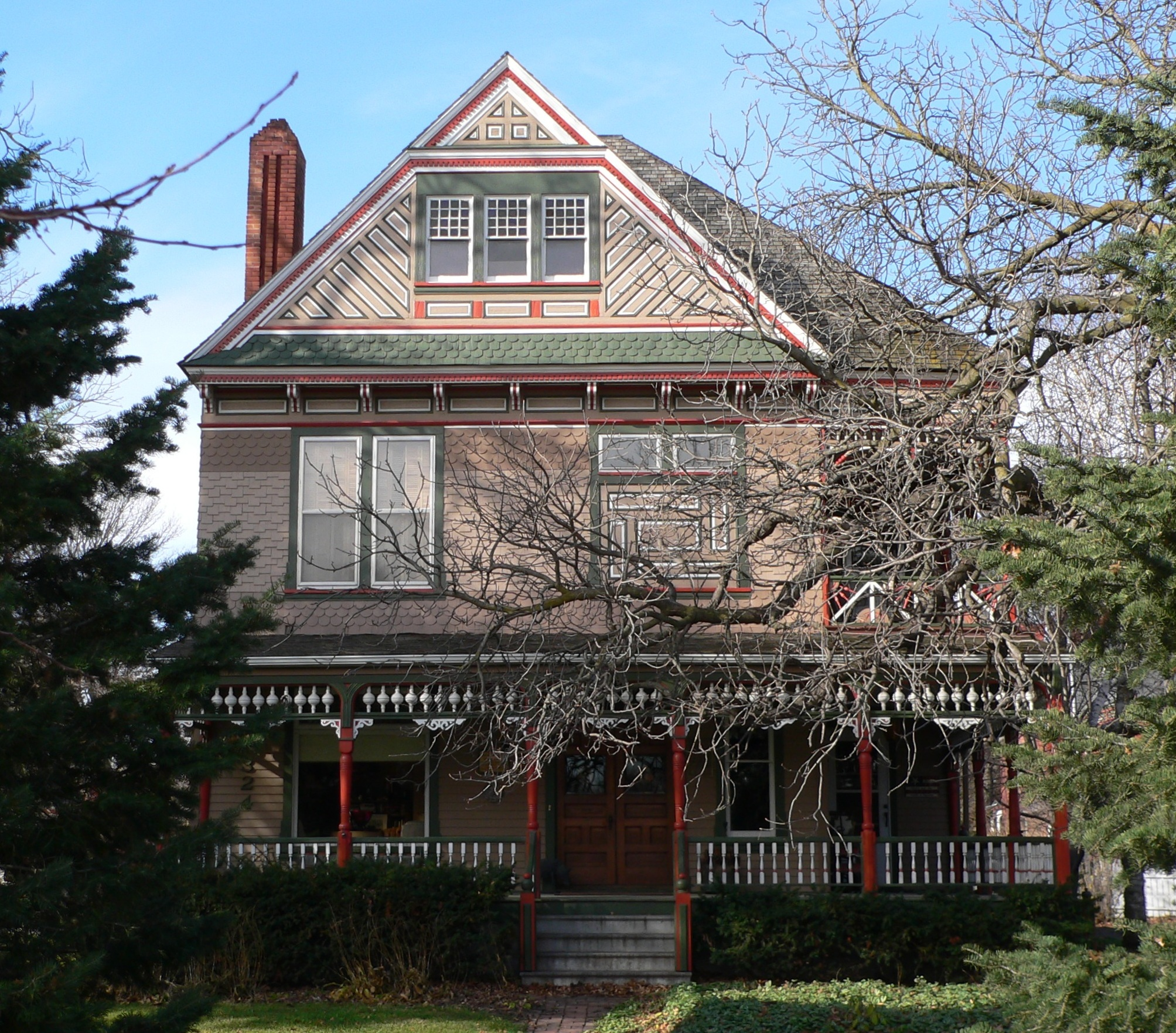 George W. Smith House in Geneva, Nebraska; seen from the east. The Queen Anne house was built in 1890; it is listed in the National Register of Historic Places.